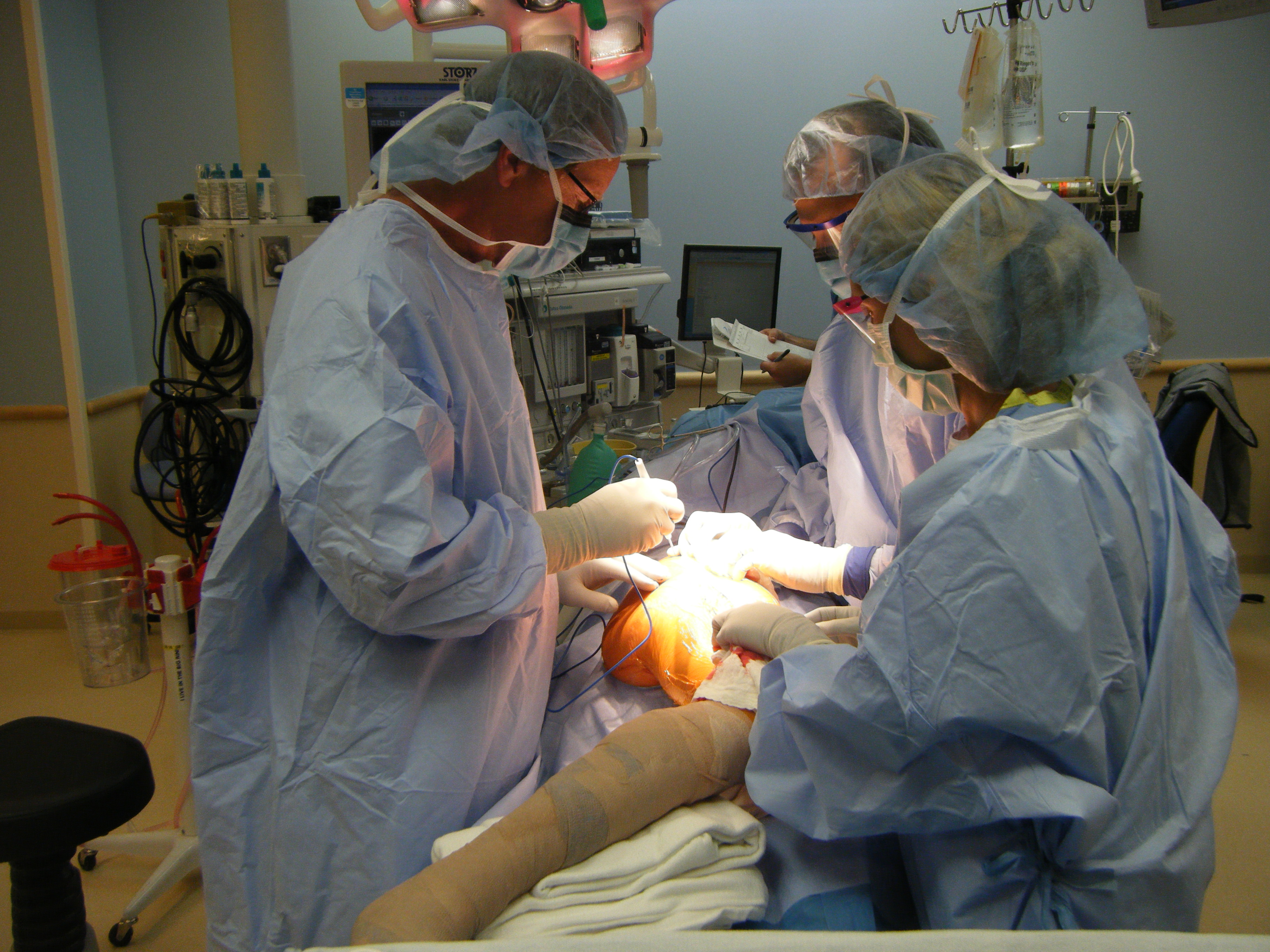 A orthopedic surgeon performing a limb salvage at the Children's Hospital (Aurora, Colorado).